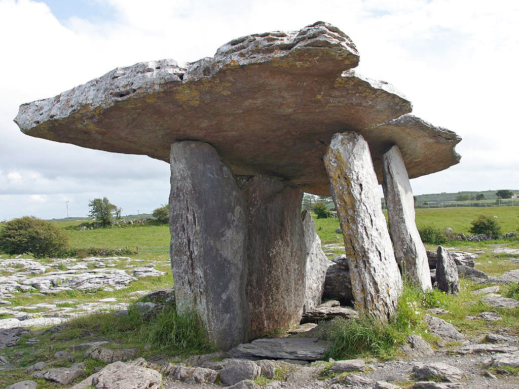 Poulnabrone Dolmen, County Clare, Ireland, downloaded from , Слика:Paulnabrone.jpg